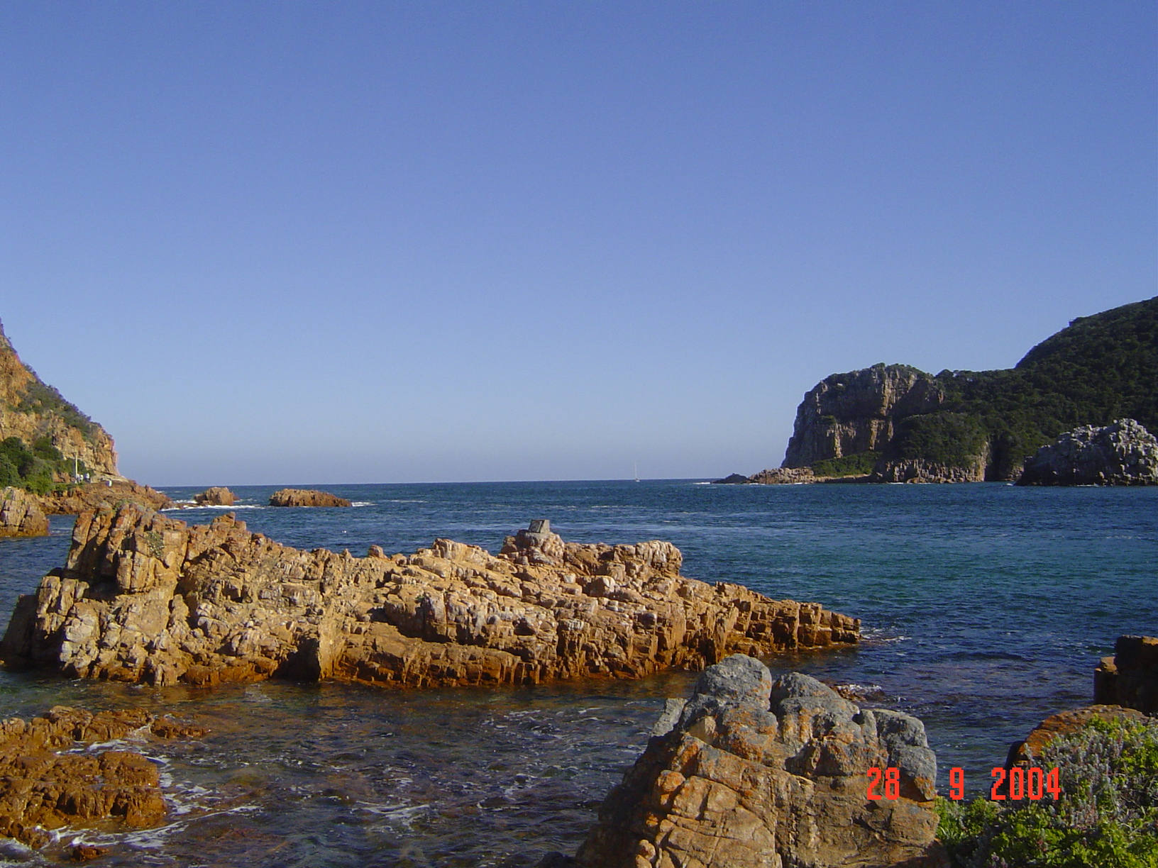 Where the lagoon meets the ocean